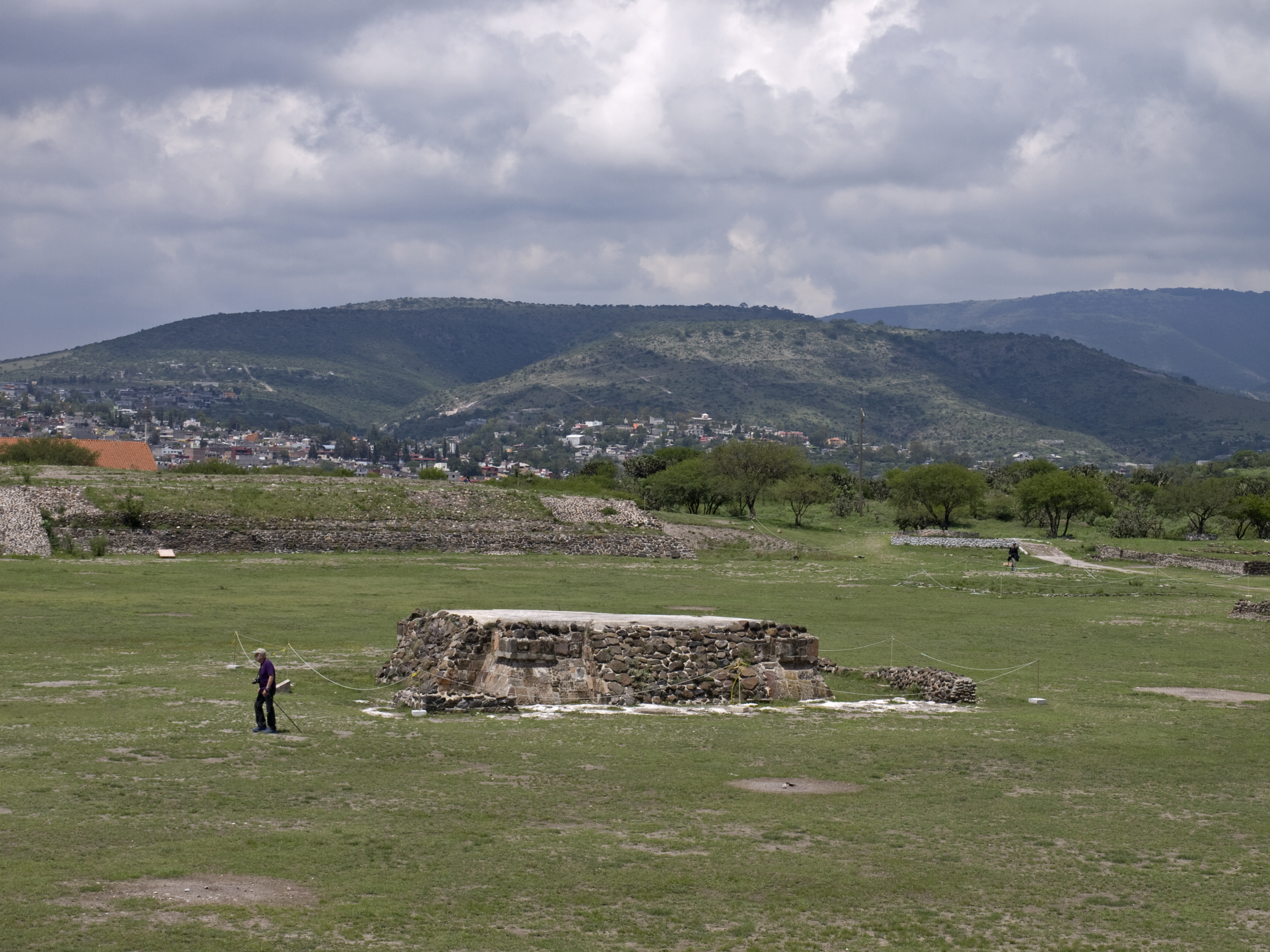 Altar in the middle of the Plaza, Tula de Allende